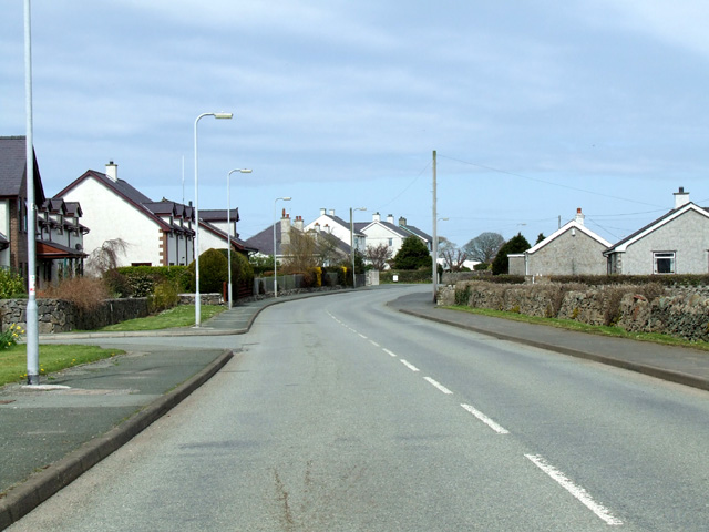 Rhosmeirch Roadscene in the village of Rhosmeirch